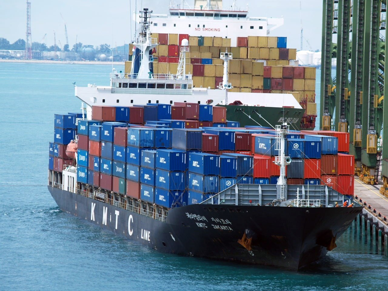 Name: KMTC JAKARTA MMSI: 440491000 IMO: 9217424 Call sign: DSOA8 Flag: Korea, Democratic People's Republic of Vesseltype: Cargo Ship Width: 27 m Length: 172 m Type Of Cargo: all ships of this type* Nav Status: -* Max Draught: -*